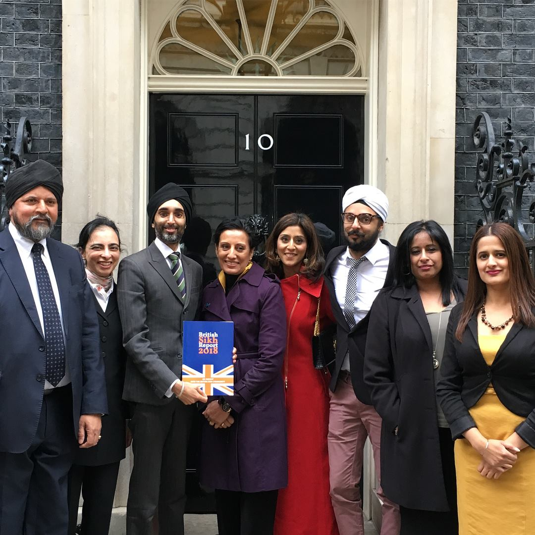 Some members of the City Sikhs and British Sikh Report teams outside Number 10 Downing Street.